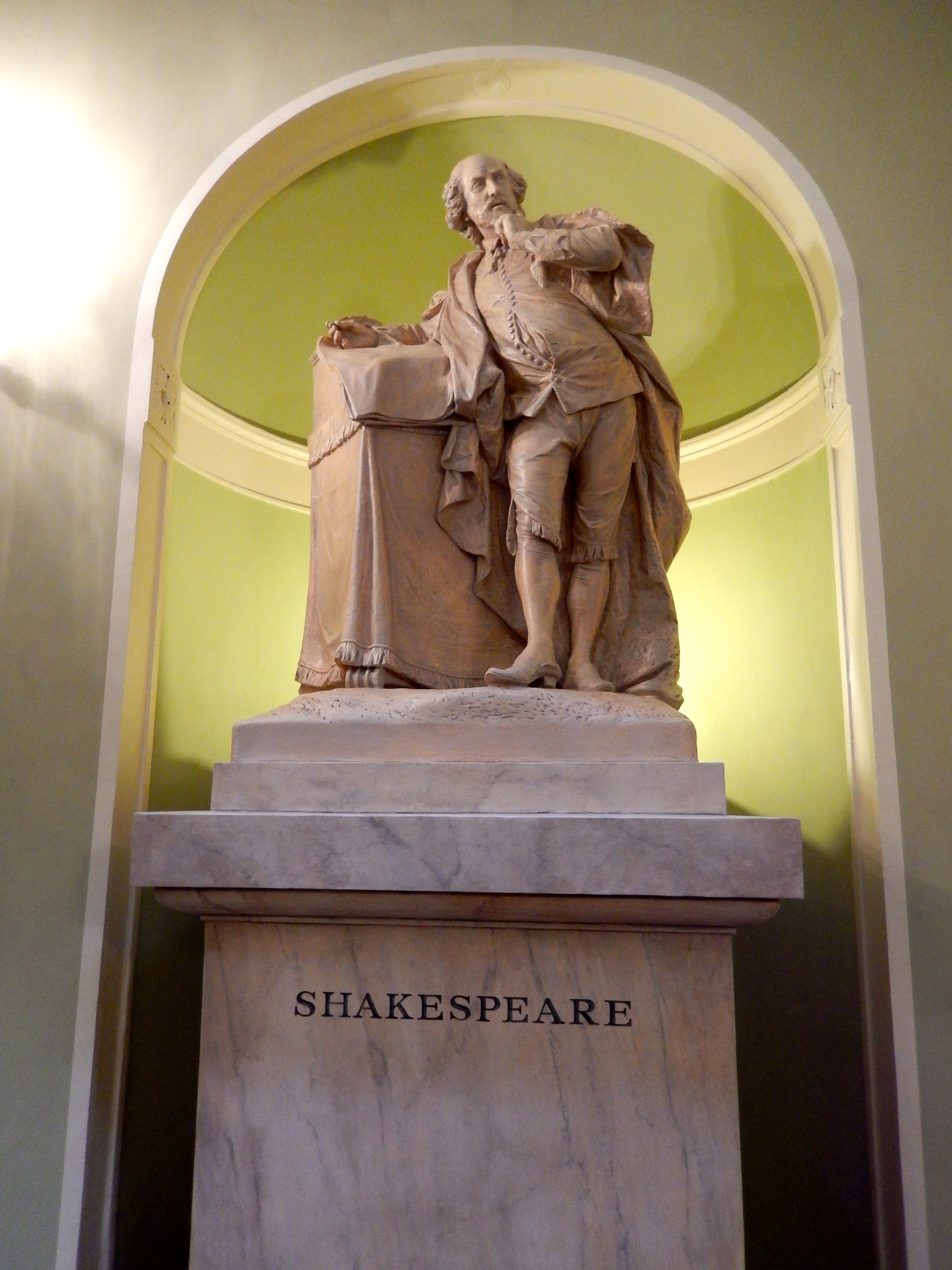 Theatre Royal Drury Lane. West End. London. June 2013.